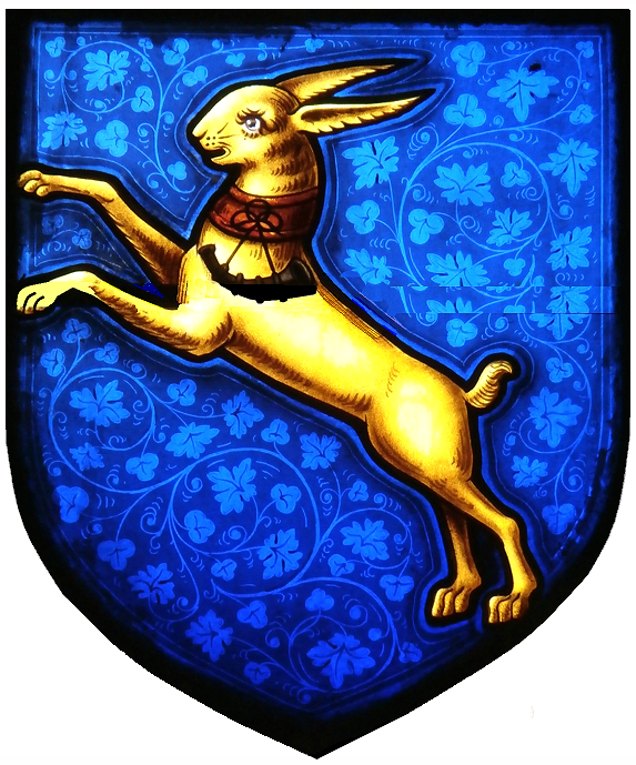 Arms of Clevland of Tapeley, Westleigh, Devon: Azure, a hare salient or collared gules pendent therefrom a bugle horn stringed sable. Detail from memorial stained glass window to Cornet Archibald Clevland, 17th Lancers, who having survived the Charge of the Light Brigade, fell one month later at Inkerman in 1854. Window erected by his sisters and co-heiresses. Image enhanced to remove horizontal glazing bar.